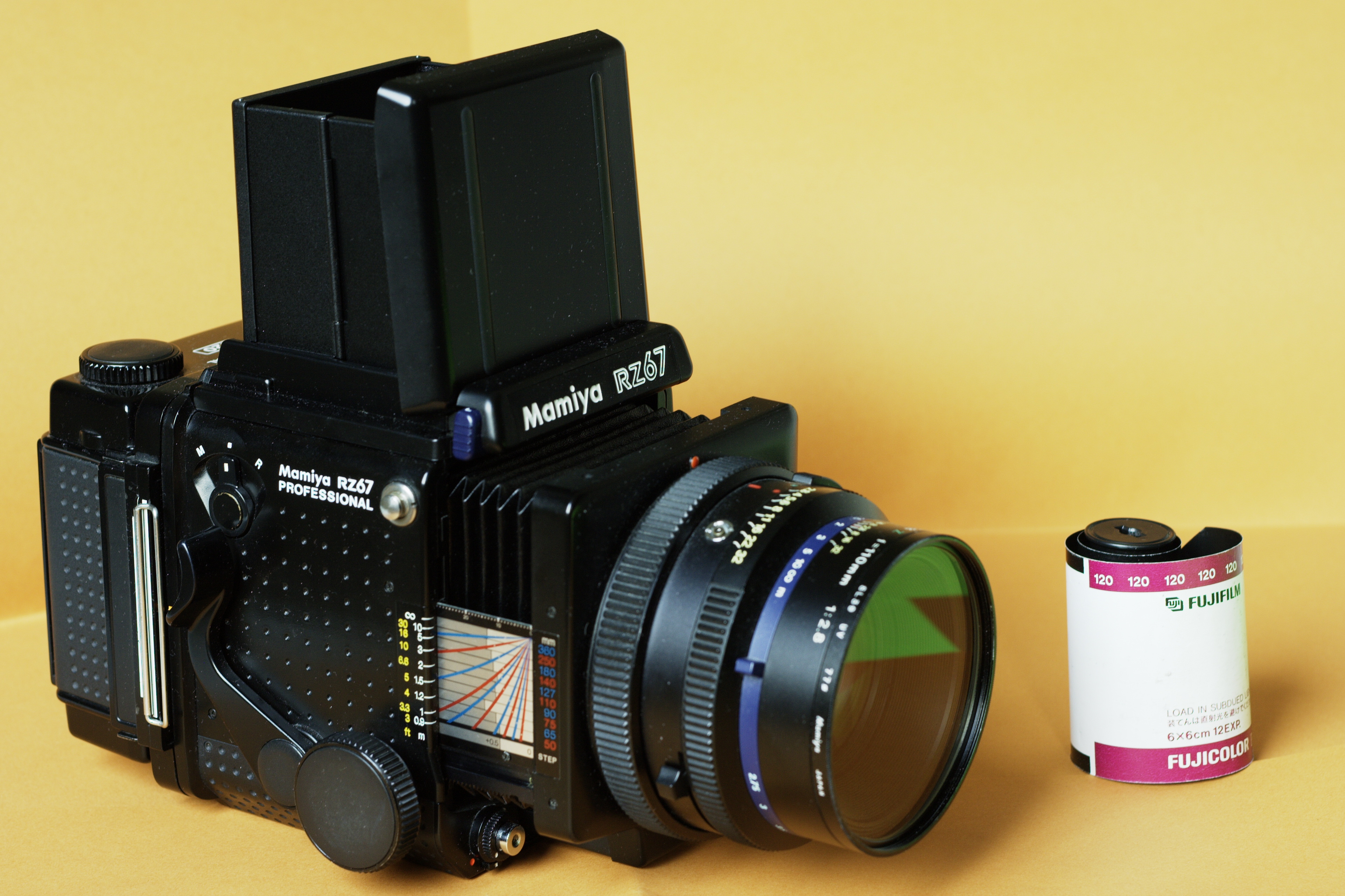 Mamiya RZ67 Professional